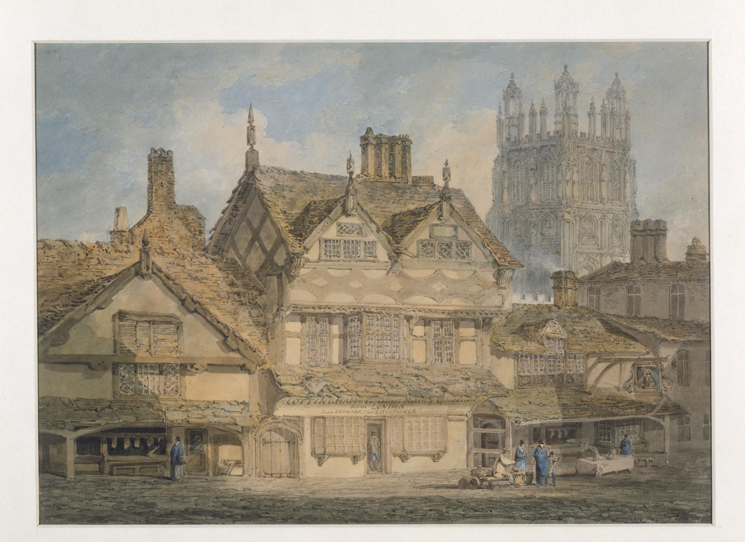 Turner, Joseph Mallord William, 'Wrexham, Denbighshire', watercolour ca. 1780s. ©V&A (the Board of Trustees of the Victoria & Albert Museum)